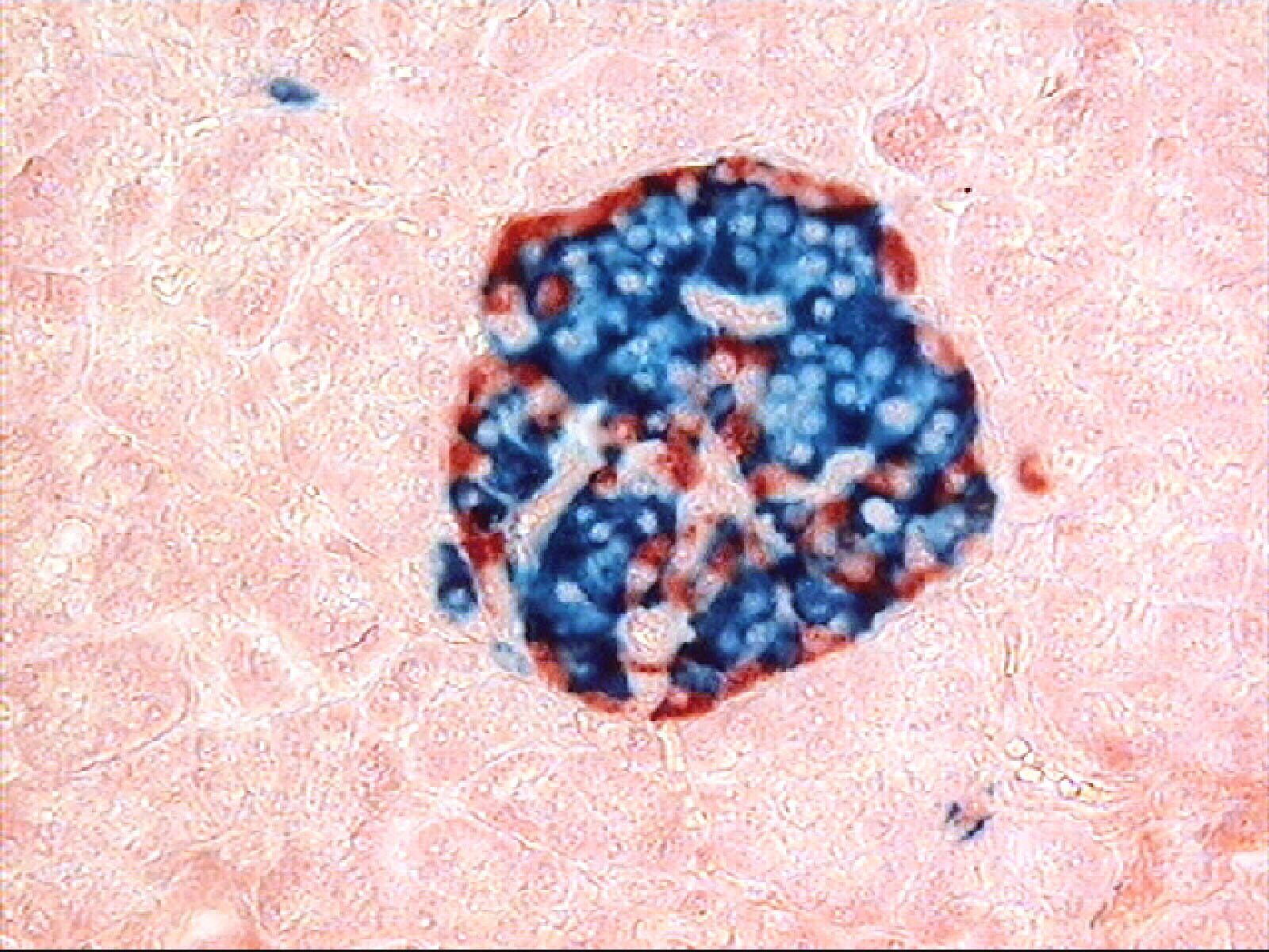 Visualised using double immunostaining Colours: red = glucagon antibody, blue = insulin antibody Generated in Laboratory of nervous system development, FSBI Human Morphology SRI RAMS, Moscow